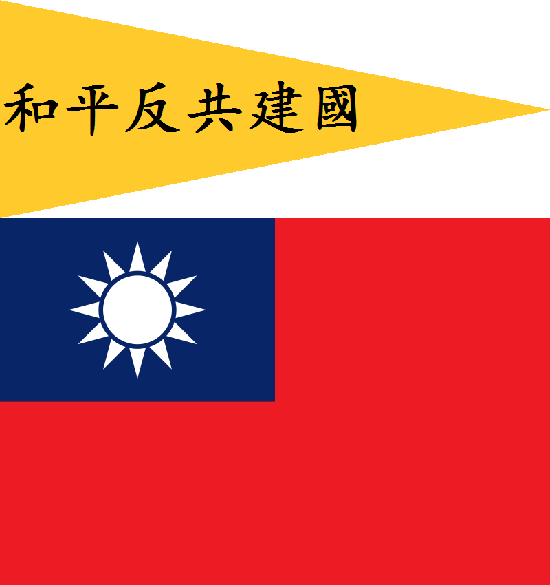 Flag of the Republic of China with yellow pennant used by the China-Nanjing regime